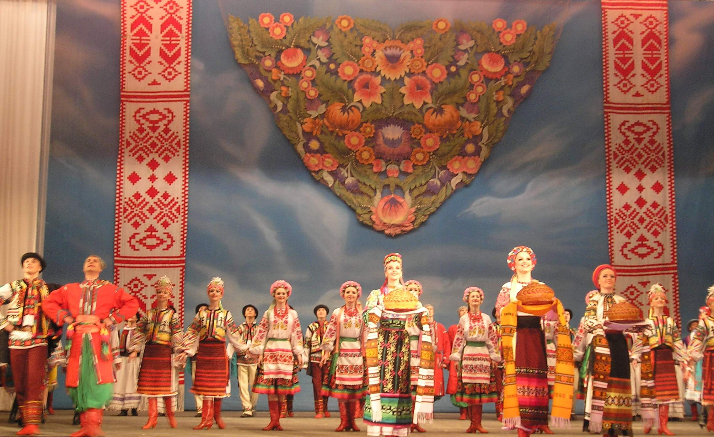 P. Virsky Ukrainian National Folk Dance Ensemble. Performens in Donetsk. April 30. 2006